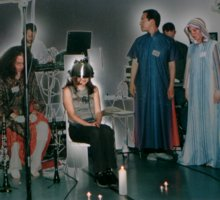 sonol